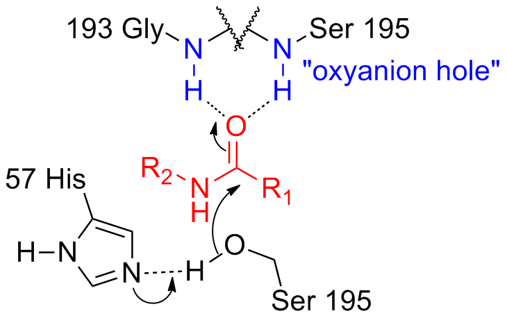 H-bond activation in serine protease